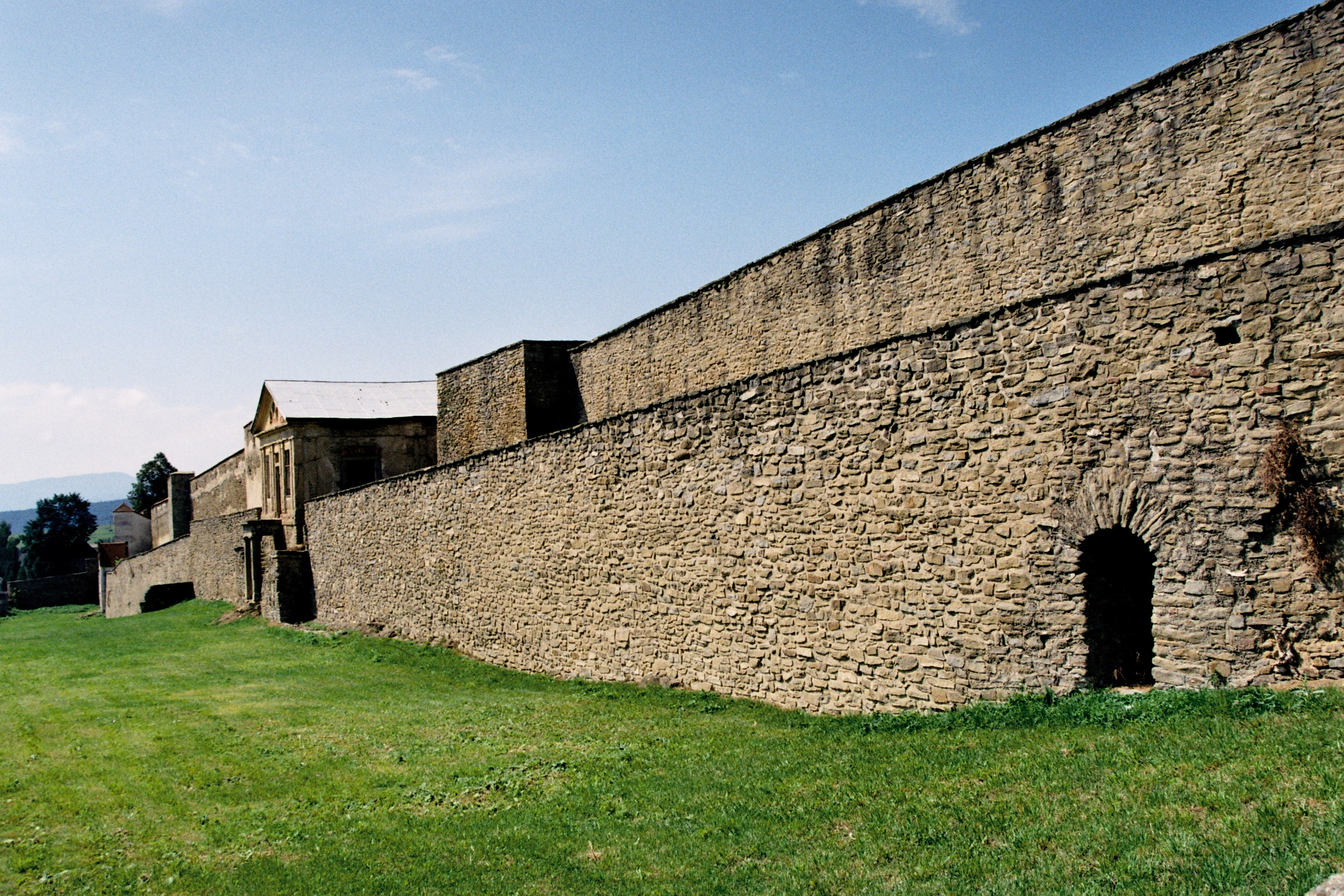 Levoca - city walls